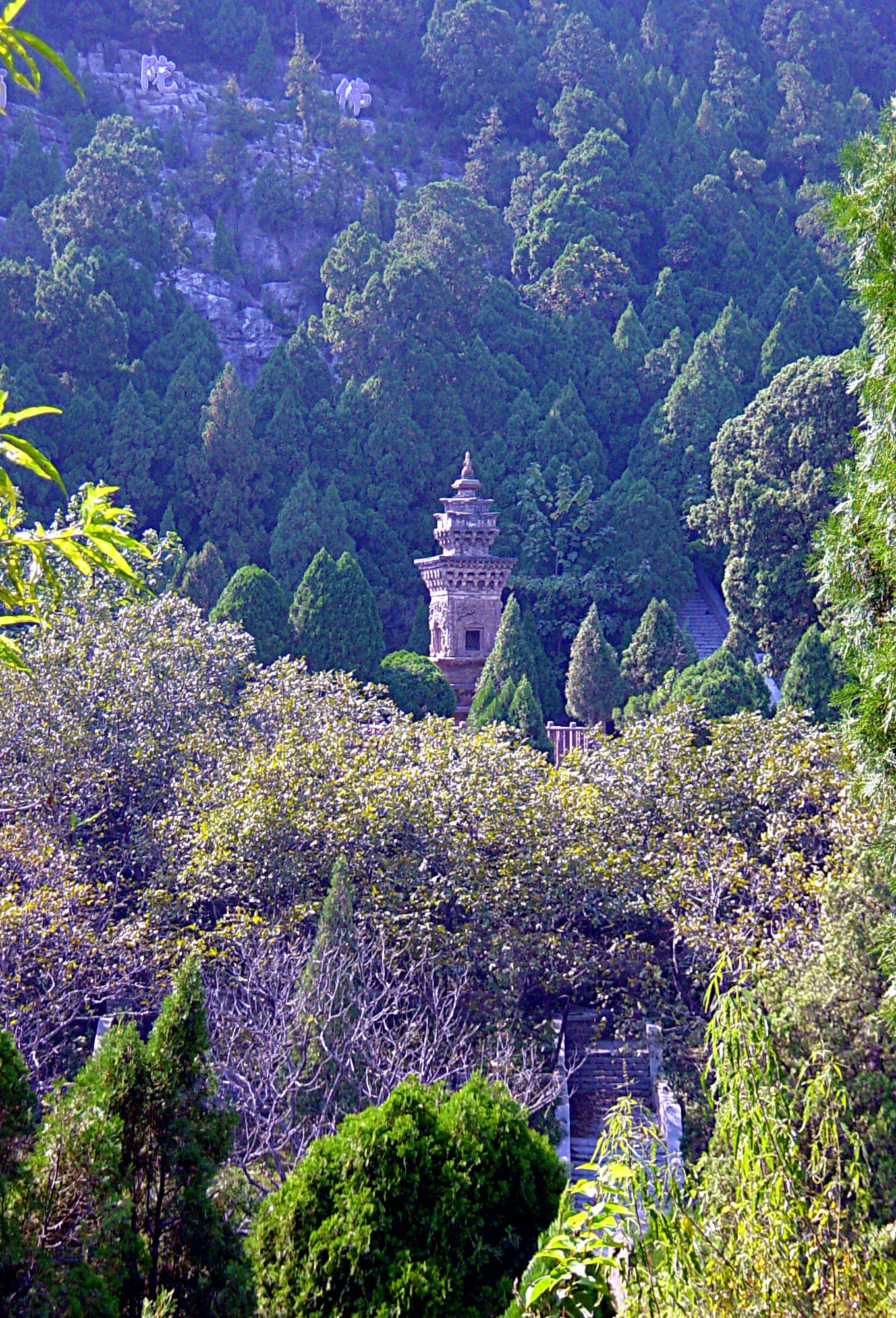 Photograph of the Dragon-and-tiger pagoda in Shandong Province, China